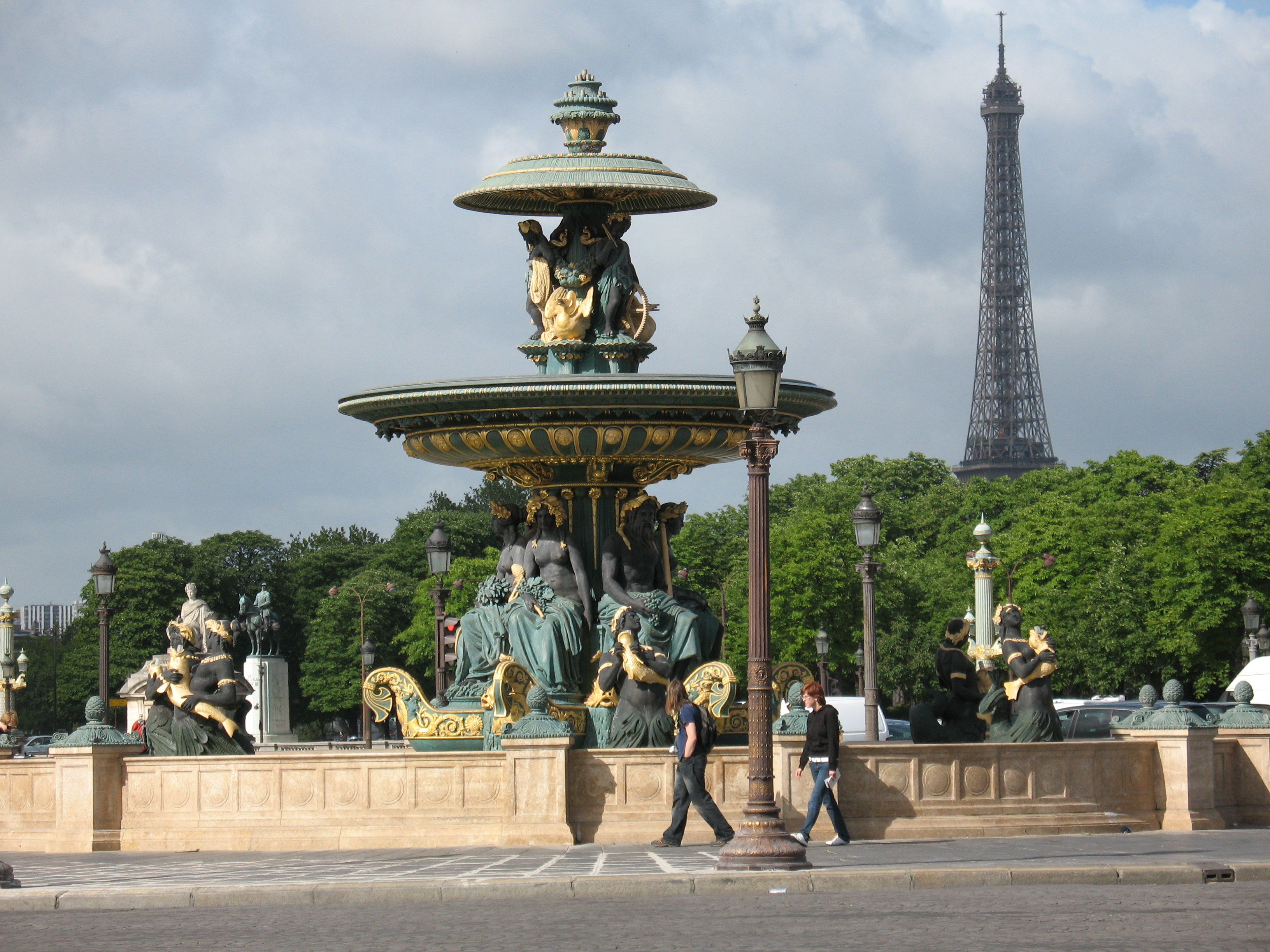 Place de la Concorde, Paris, France, from in front of L'Hôtel de Crillion.